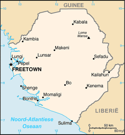 An Afrikaans map of Sierra Leone.